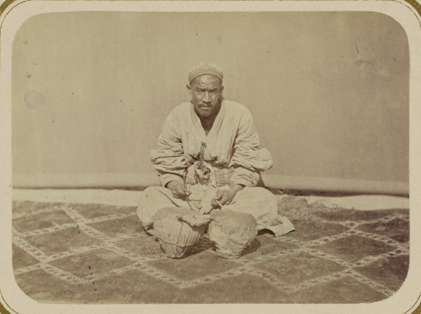 This photograph is from the ethnographical part of Turkestan Album, a comprehensive visual survey of Central Asia undertaken after imperial Russia assumed control of the region in the 1860s. Commissioned by General Konstantin Petrovich von Kaufman (1818–82), the first governor-general of Russian Turkestan, the album is in four parts spanning six volumes: “Archaeological Part” (two volumes); “Ethnographic Part” (two volumes); “Trades Part” (one volume); and “Historical Part” (one volume). The principal compiler was Russian Orientalist Aleksandr L. Kun, who was assisted by Nikolai V. Bogaevskii. The album contains some 1,200 photographs, along with architectural plans, watercolor drawings, and maps. The “Ethnographic Part” includes 491 individual photographs on 163 plates. The photographs show individuals representing the different peoples of the region (Plates 1–33); daily life and rituals (Plates 34–91); and views of villages and cities, street vendors, and commercial activities (Plates 92–163). Drums; Ethnographic photographs; Musical instruments; Musicians; Photographic surveys; Portrait photographs; Portraits; Turkic peoples